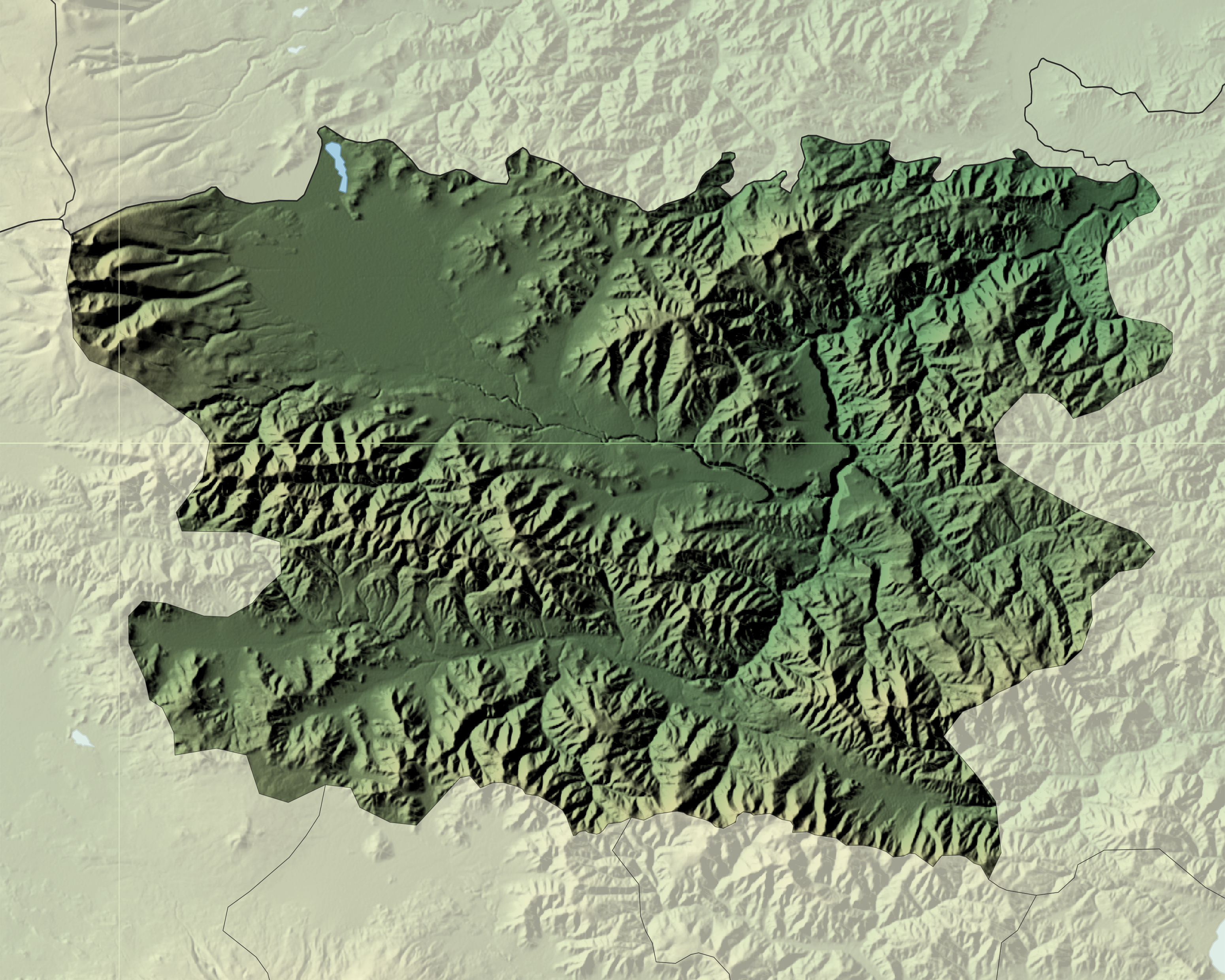 Hillshaded map of Lori province of Armenia